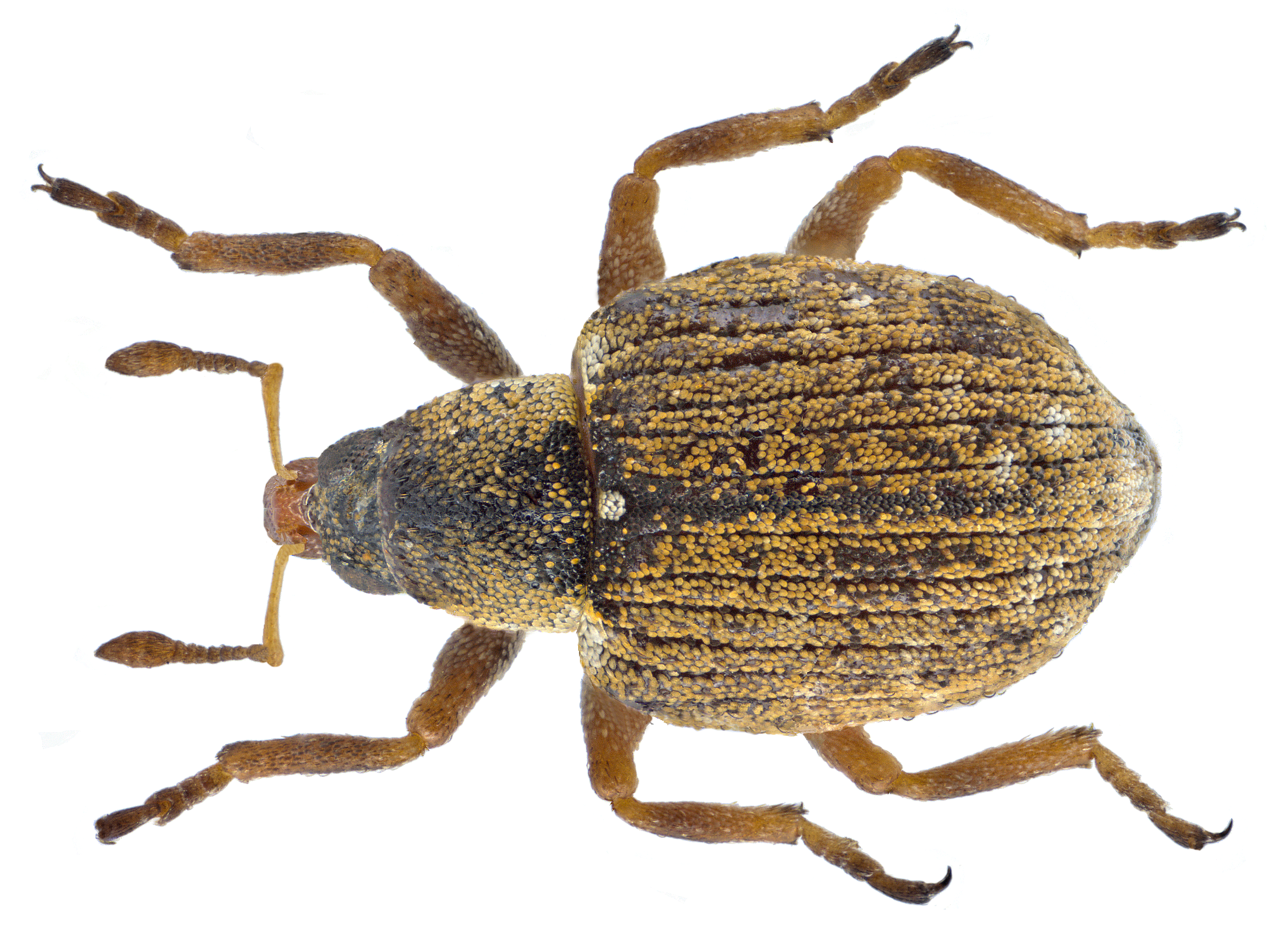 Family: Curculionidae Size: 2,1 mm (1,8-2,3 mm) Origin: North America, introduced and naturalized in Europe in some places Ecology: lives on Azolla filiculoides Location: England, Acle leg.det. P.Harwood, 5.XI.1921 Coll. Oxford University Museum of Natural History Photo: U.Schmidt, 2013